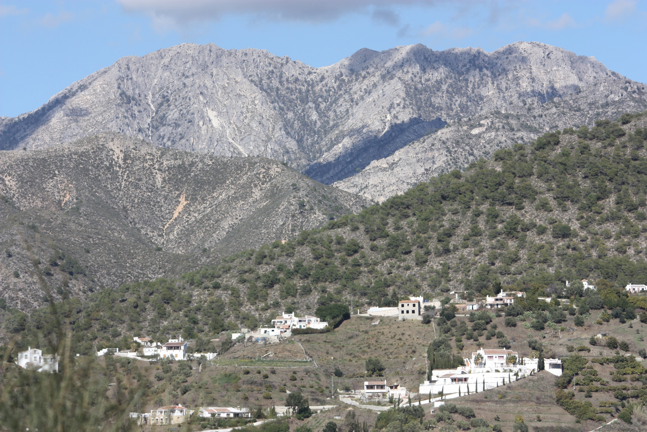 Torrox, view to the Sierra Almijara Mountains